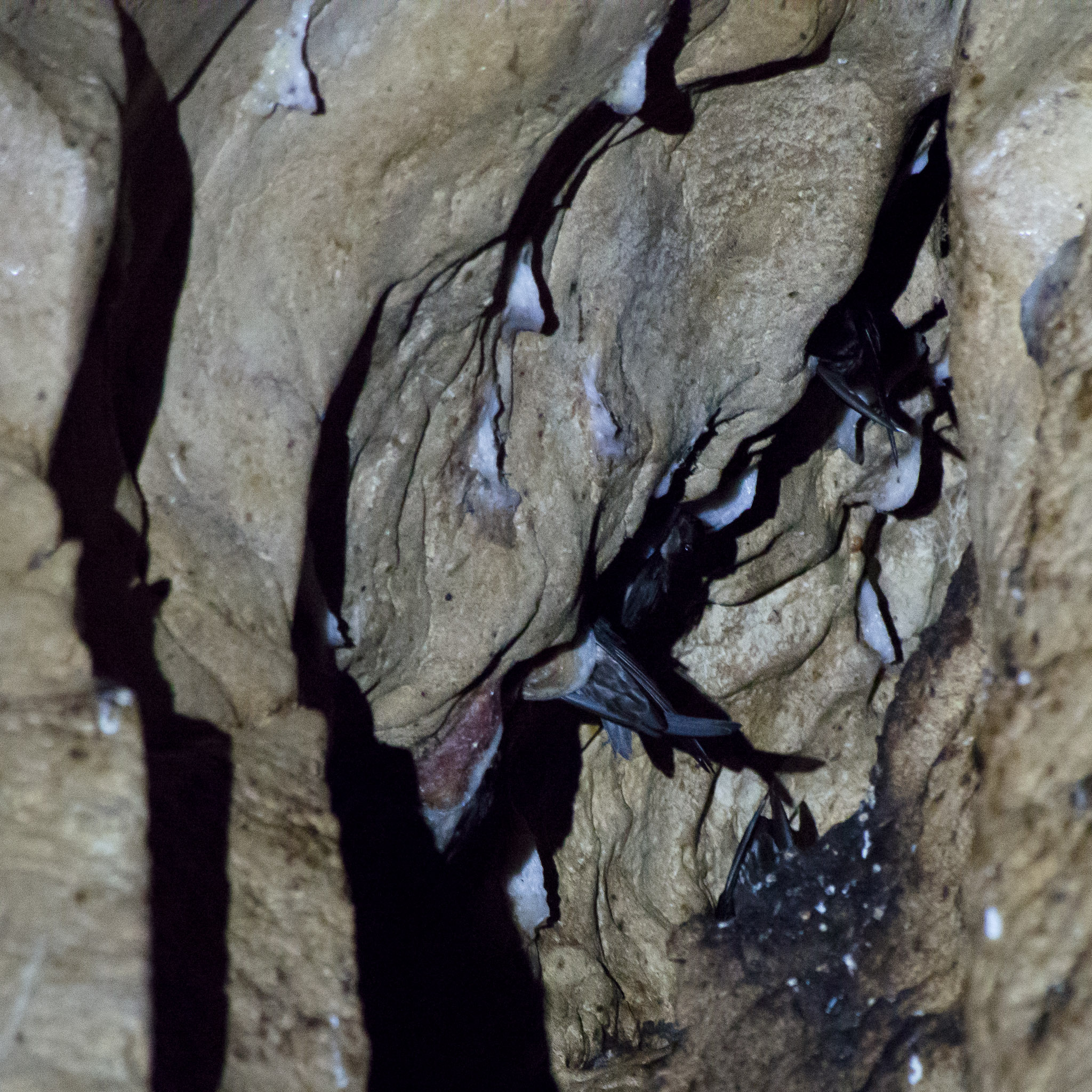 Also known as White-nest Swiftlet, for obvious reasons.